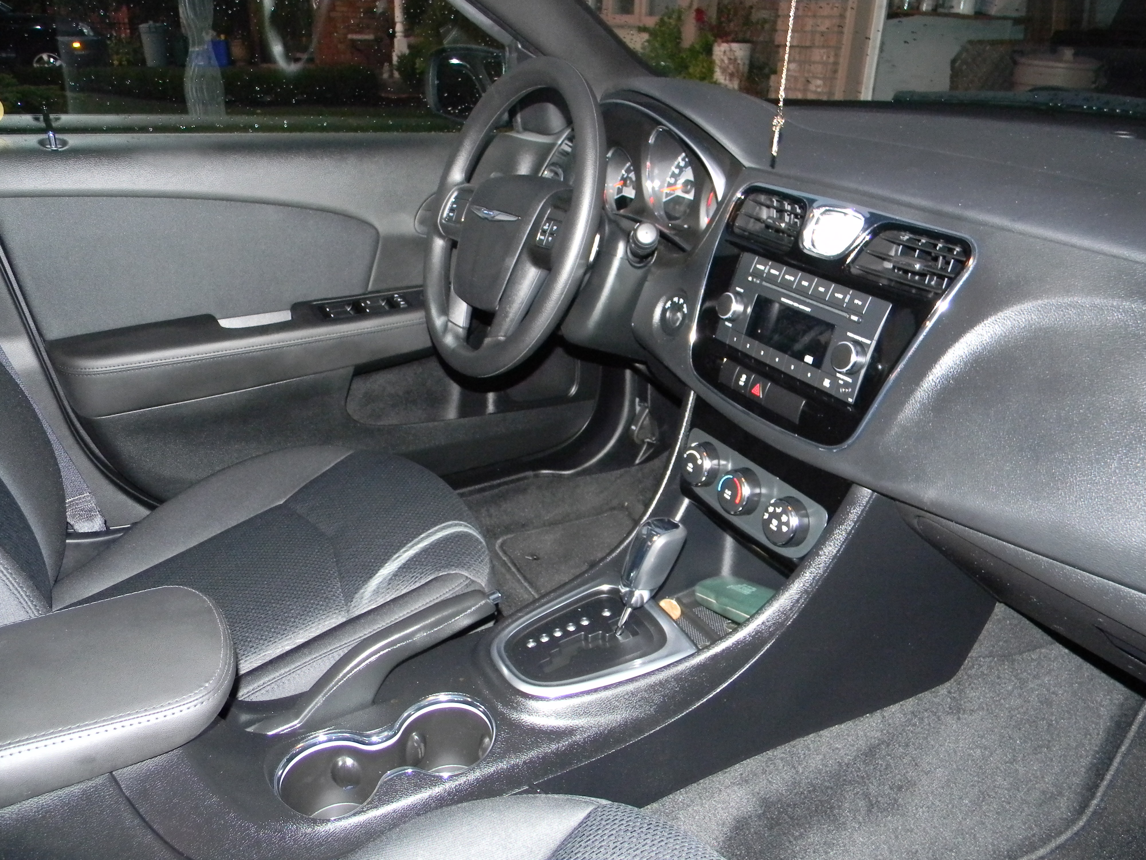 2012 Chrysler 200 LX (enterier), photographed in Canada.